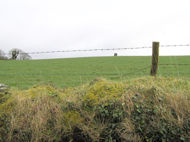 Standing stone at Freughlough. This stone is in the middle of the field.